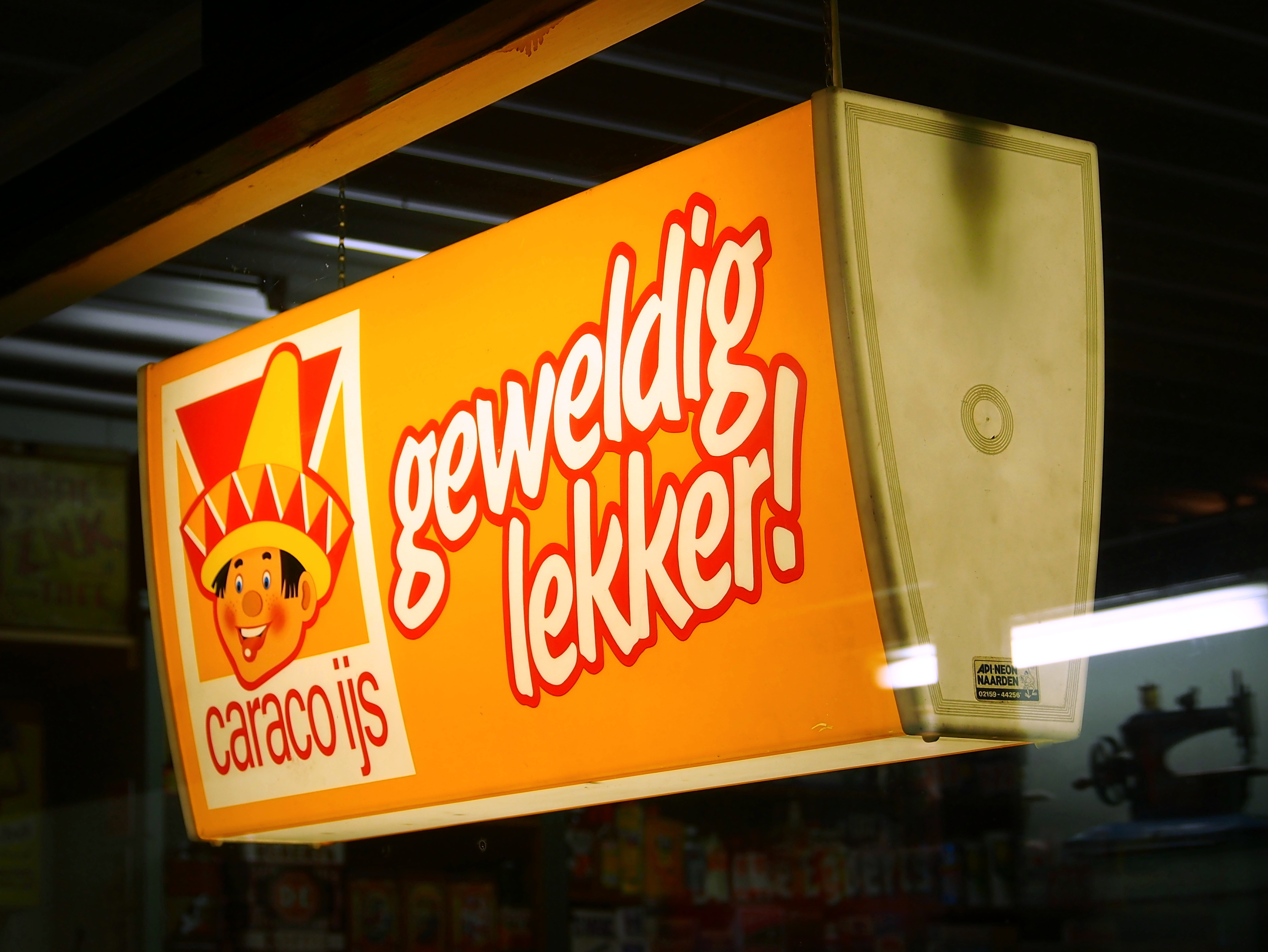 Old product signs photographed in the museum Terug in de Tijd, Horn, The Netherlands.